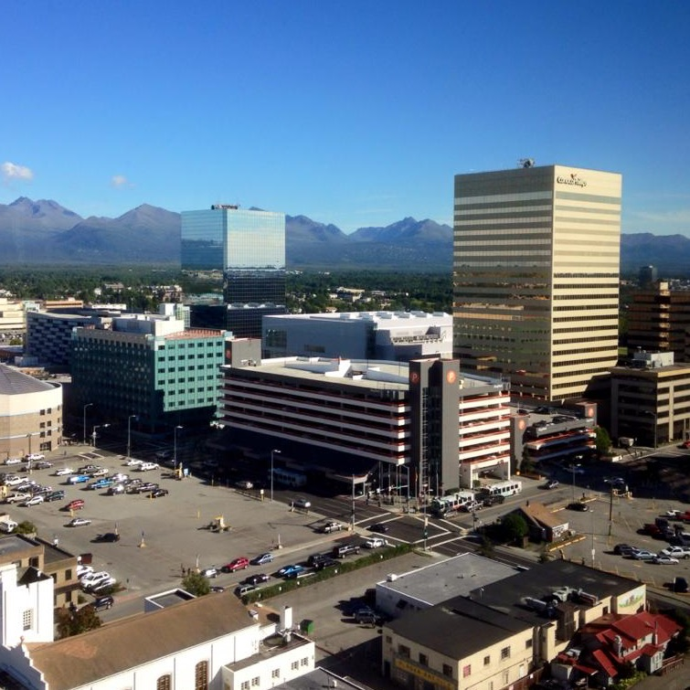 View of downtown Anchorage from the restaurant inside the famous Hotel Captain Cook. The gold building on the right is the Conoco-Phillips Building. It is the tallest building in Alaska and exemplifies the importance of the petroleum industry in the state.